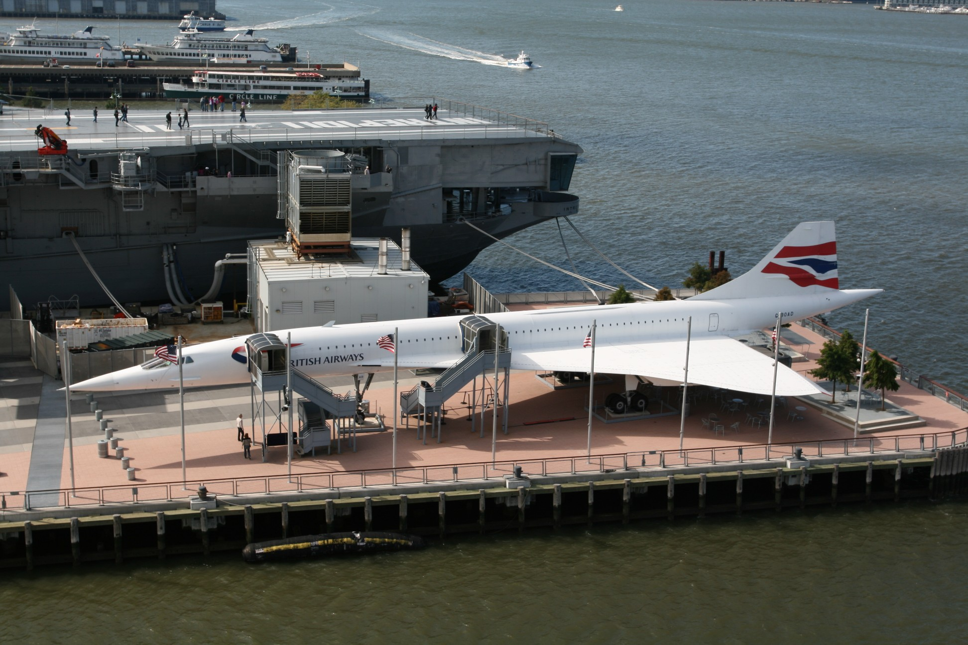 New York Manhatten